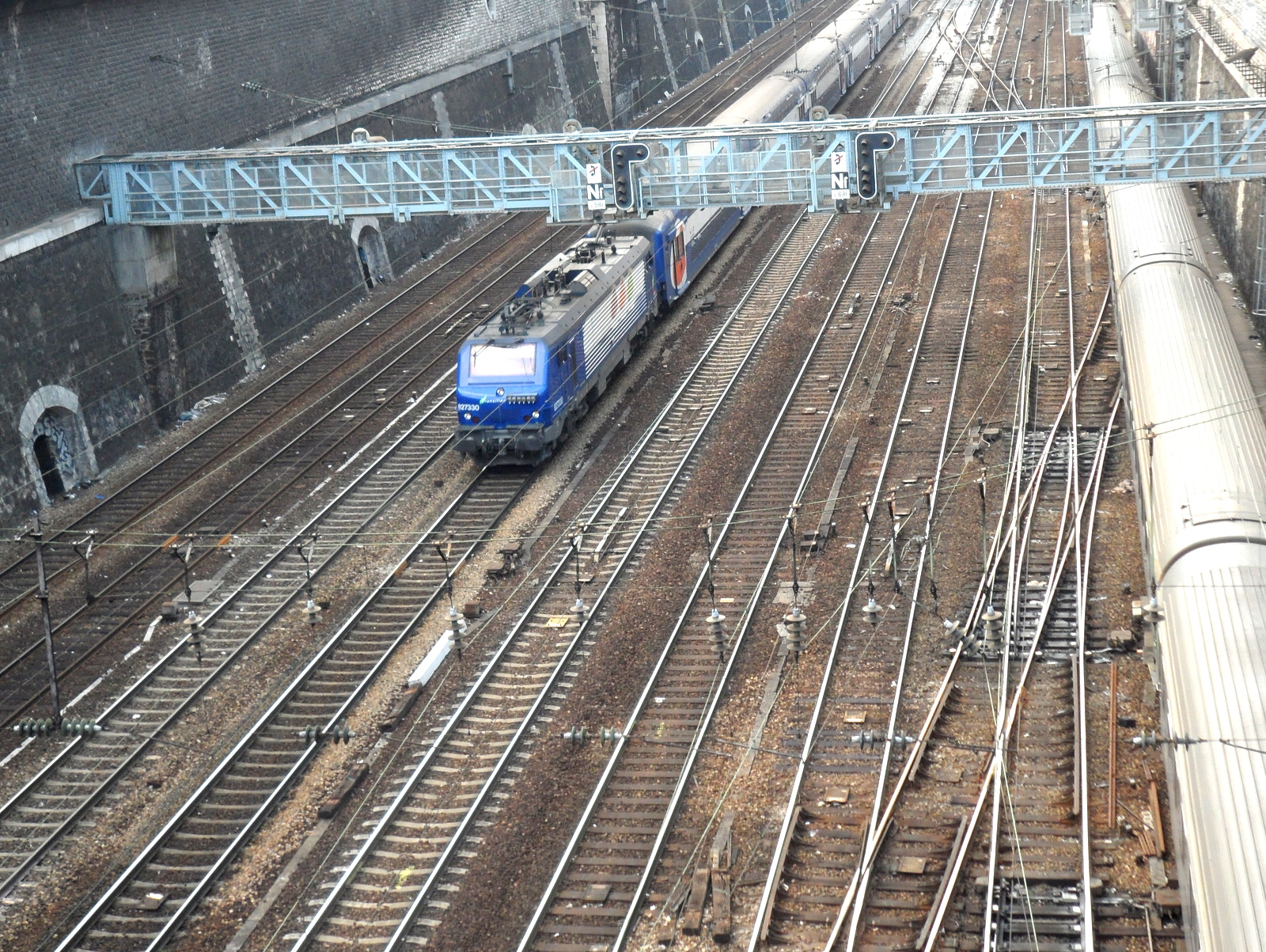 Passenger rail lines in Paris, France. A double deck train hauled by a BB 27300 runs two Saint-Lazare station in the Batignolles Trench. The train on the right is a corail going to the depot